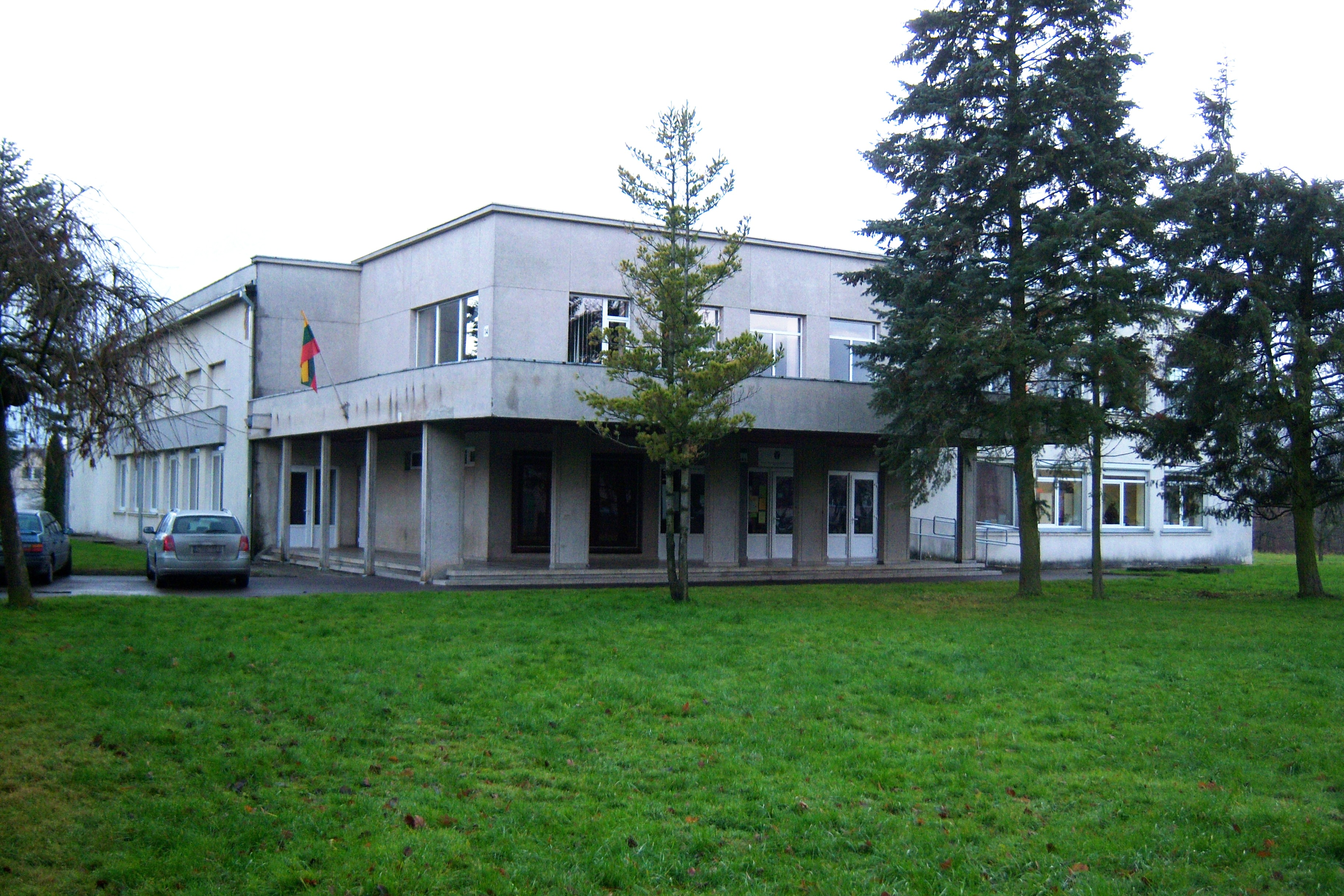 Rokai (village), center of culture, Kaunas District. Lithuania